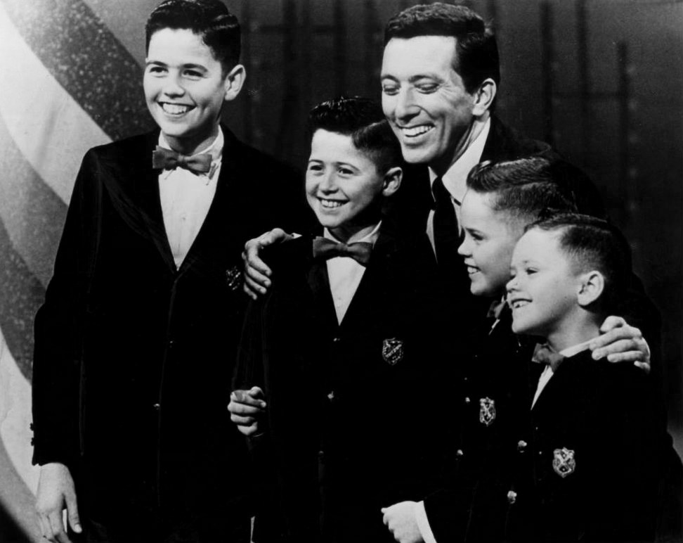 Publicity photo of the young Osmond Brothers with singer Andy Williams. The young boys were regulars on Williams' television show from 1962 to 1969. From left: Alan, Wayne, Andy Williams, Merrill, and Jay.